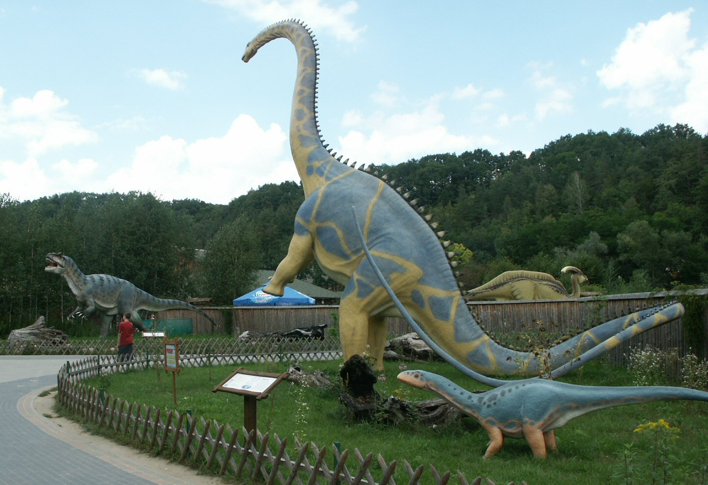 Models of Allosaurus and Diplodocus in Bałtów, Poland